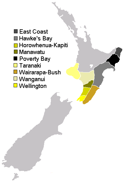 Provincial rugby unions consisting the Hurricanes Super 14 franchise area